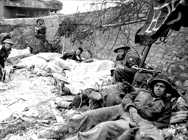 Wounded Canadian soldiers await evacuation from a casualty clearing station on Juno beach, June 6, 1944.